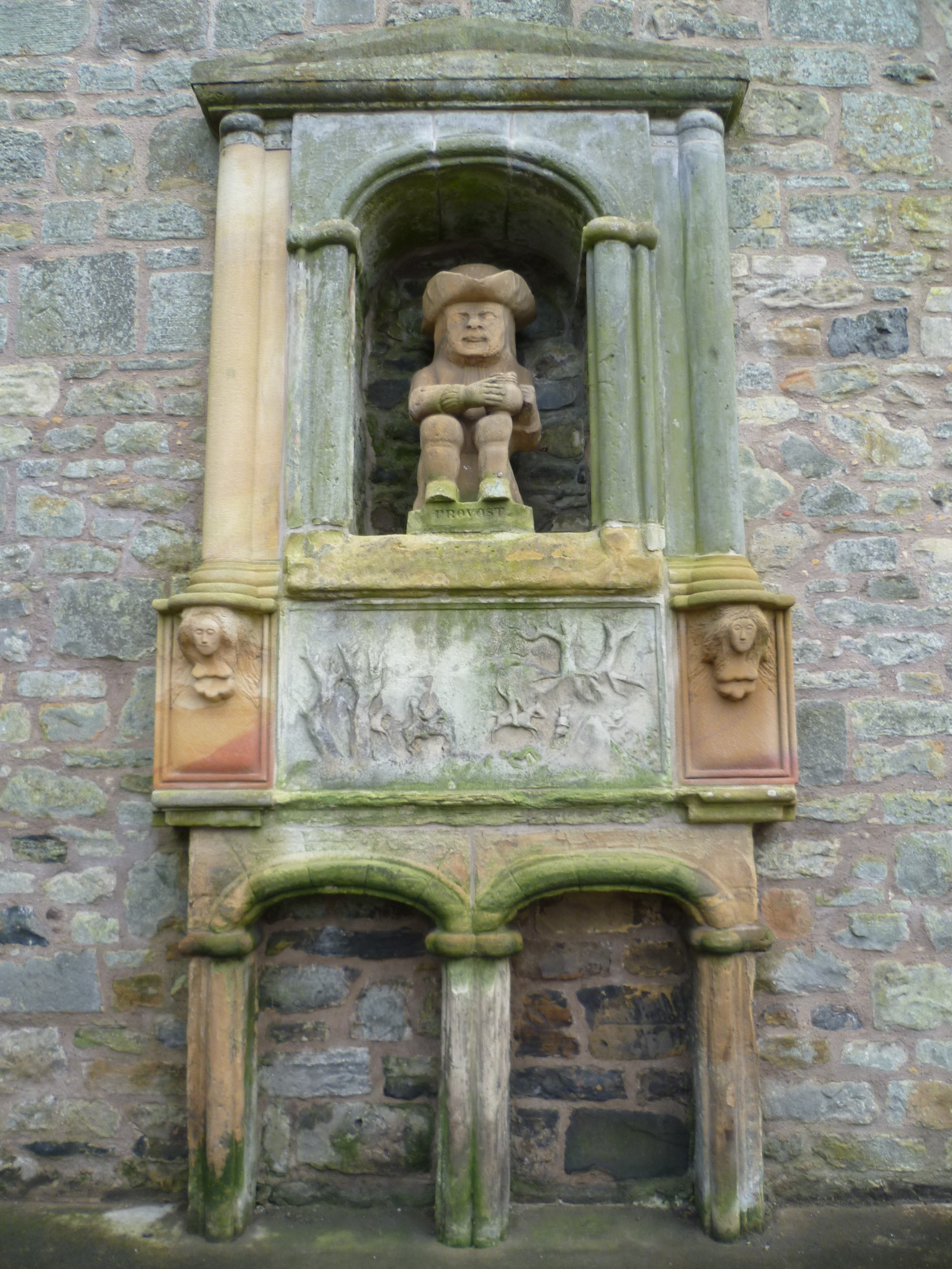 Caricature believed to be of a 16th-century church provost by a local 18thC stonemason, James Howie.